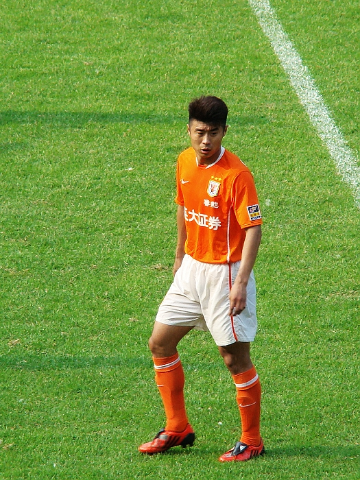 Shandong Luneng striker Han Peng in Yuexiushan Stadium